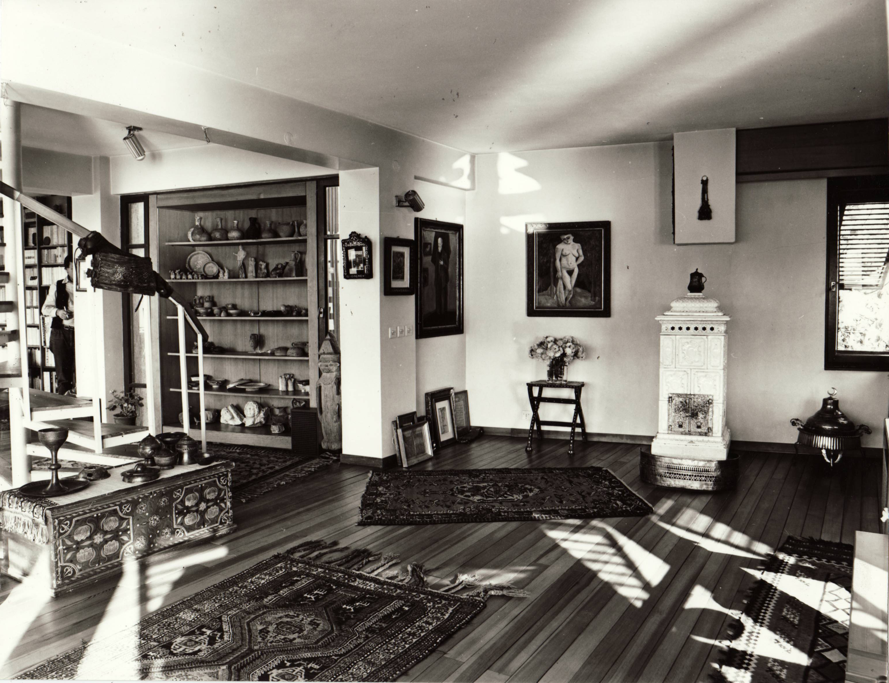 Utarit İzgi Archive is now open at SALT Research SALT Research, Utarit İzgi Archive Utarit İzgi Arşivi SALT Araştırma’da Ferit Edgü Yalısı, Kanlıca, 1980 SALT Araştırma, Utarit İzgi Arşivi